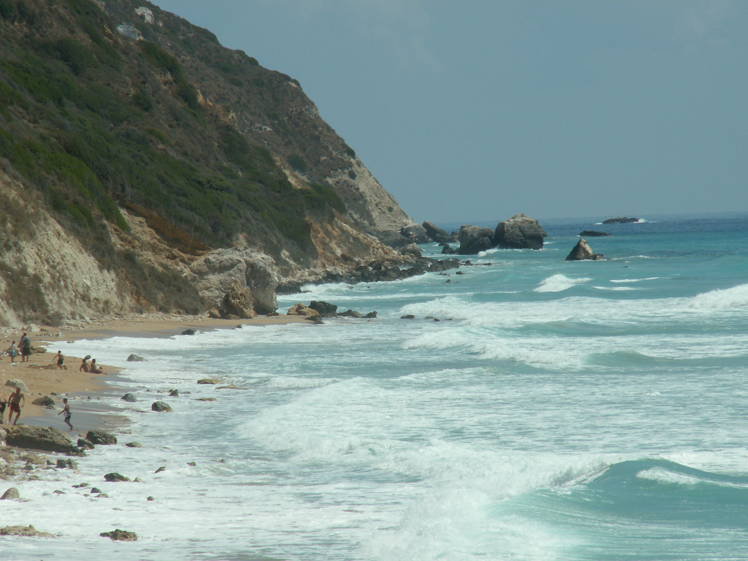 This is a photography of Natura 2000 protected area with ID GR2220004